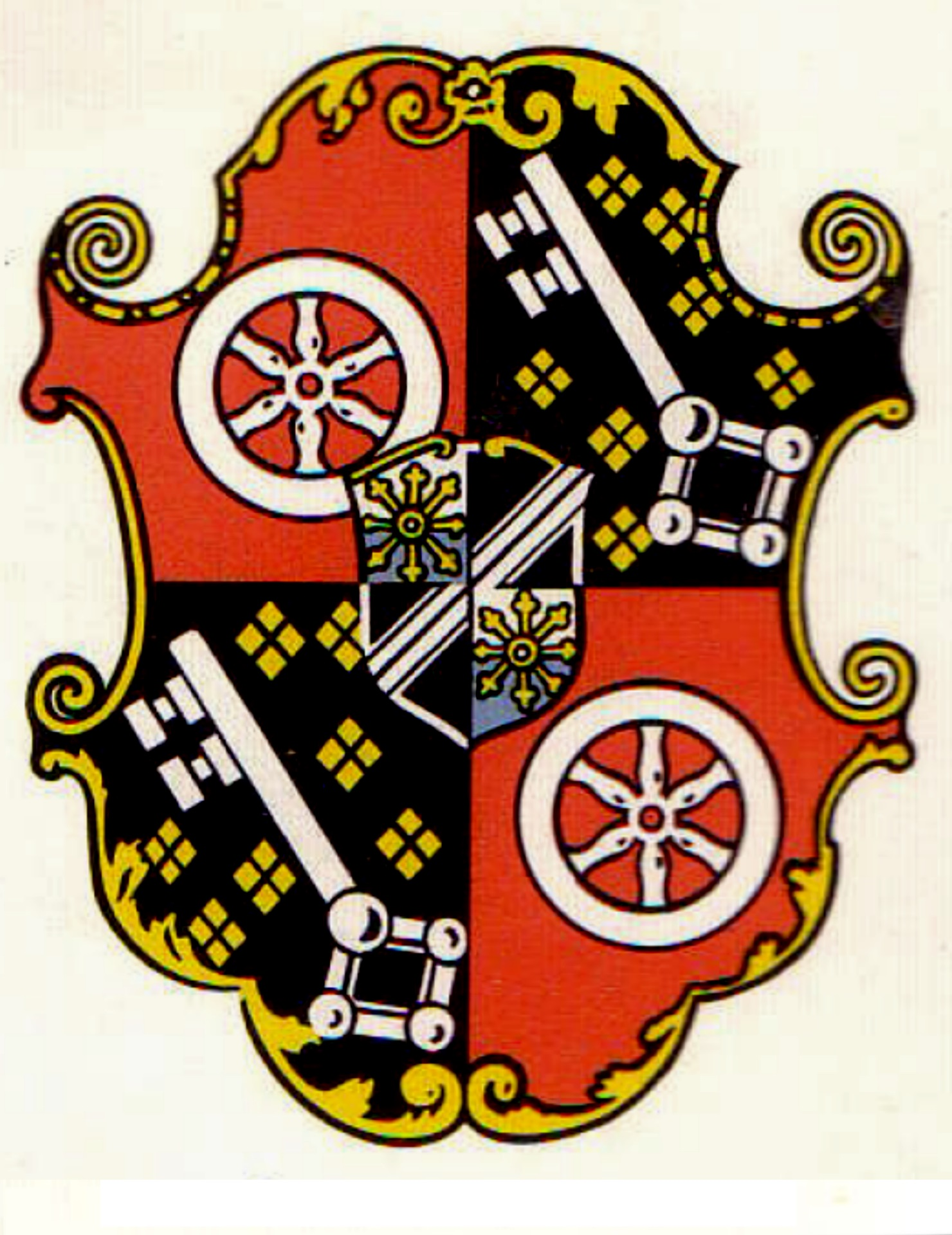 Georg Friedrich von Greiffenklau